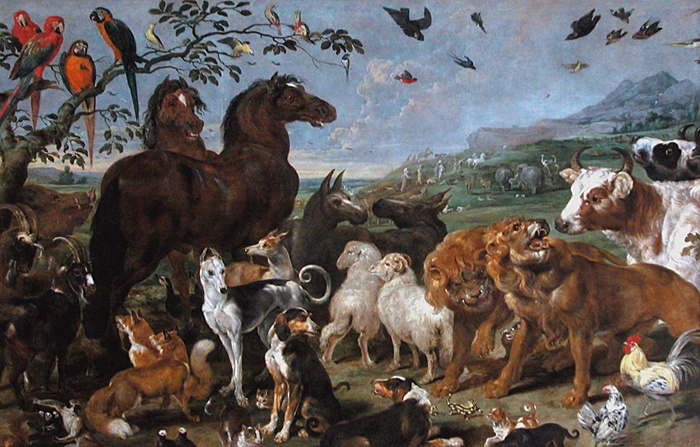 This painting has been enlarged at the top and is an old copy. The boar's head was redone during the restoration of 1990–93. In the background the ark and various animals moving towards it can be seen. The motif of the parrots derives from Snyders, Paul's brother-in-law (see a painting in Grenoble, traditionally attributed to Snyders but today attributed to Paul de Vos).